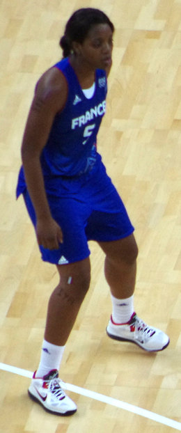 Women's basketball final